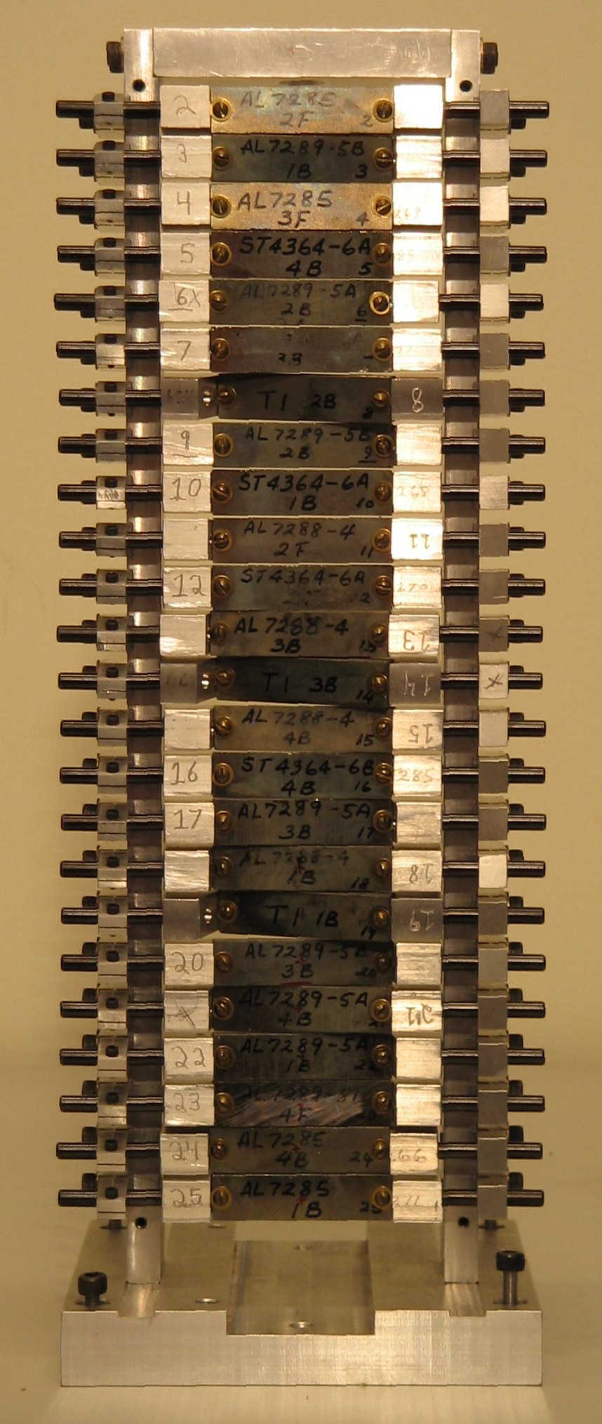 Crystal monochromator for neutron radiation on the ECHIDNA. Author: Klaus-Dieter Liss 2006